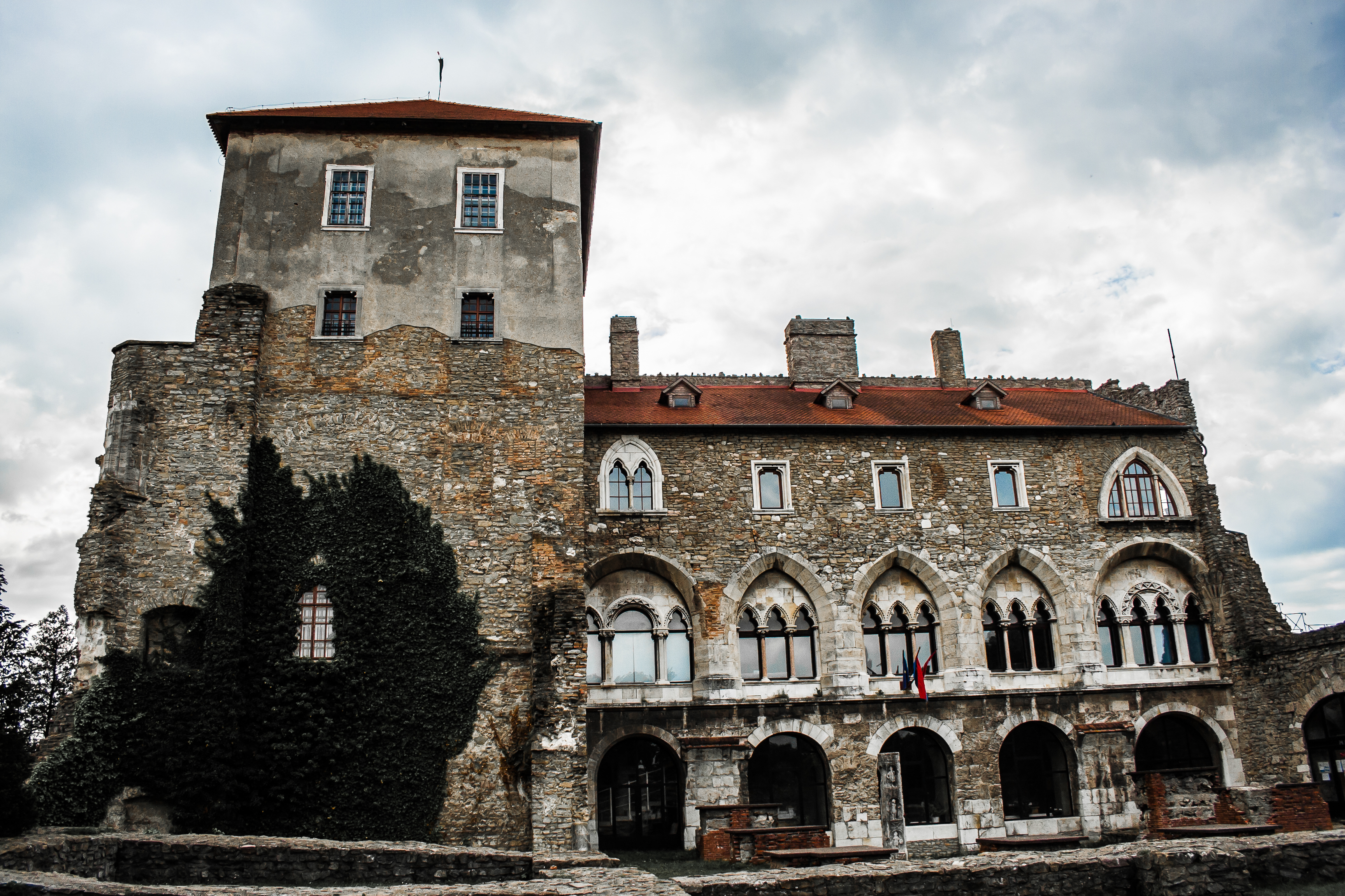 Castle complex in Tata This is a photo of a monument in Hungary. Identifier: 6470